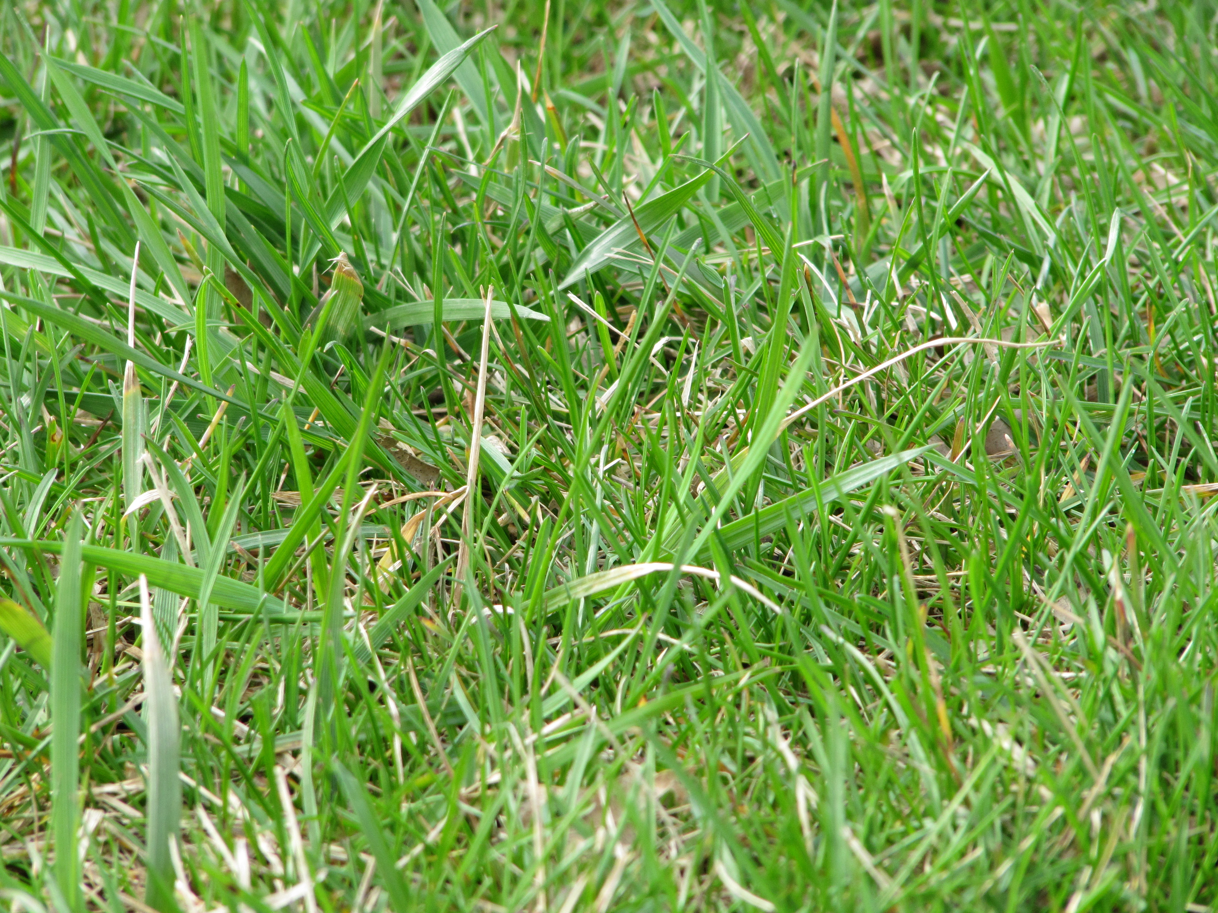 Grass in a field.